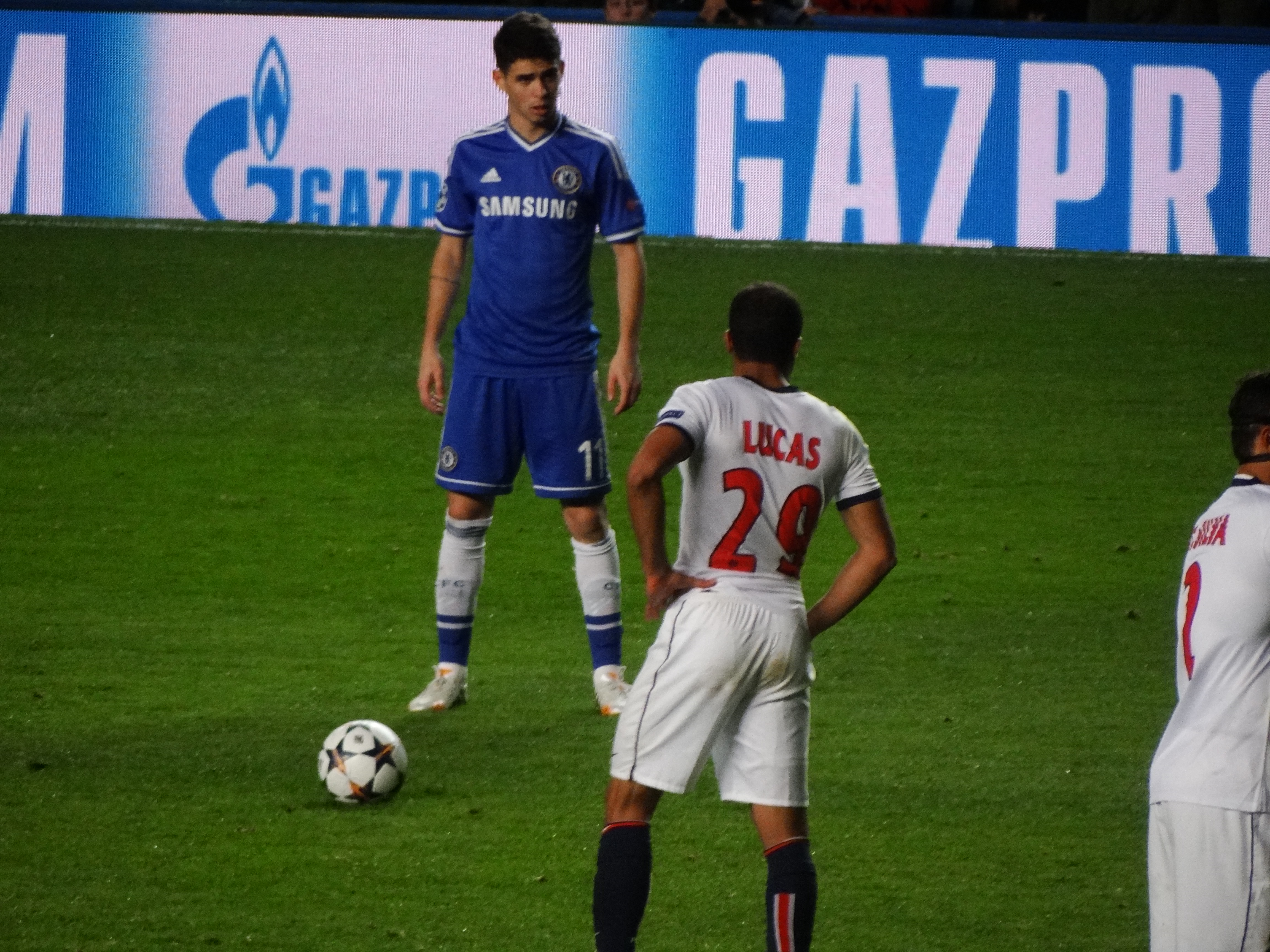 Oscar taking a free-kick in a UEFA Champions League quarter-final match against Paris Saint-Germain.